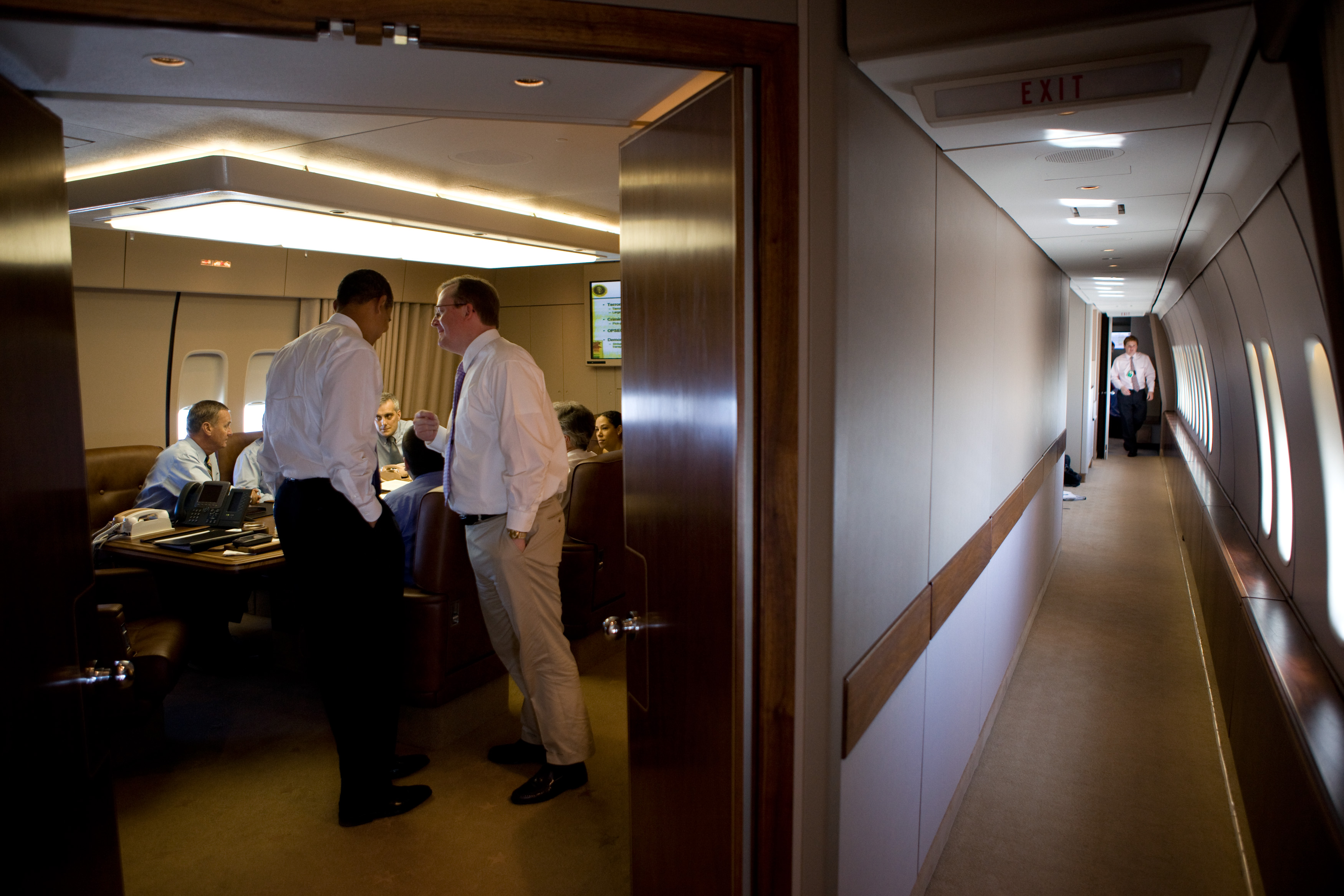 President Barack Obama confers with Press Secretary Robert Gibbs aboard Air Force One after departing Moscow en route to Italy, to attend the G-8 summit in L'Aquila, July 8, 2009